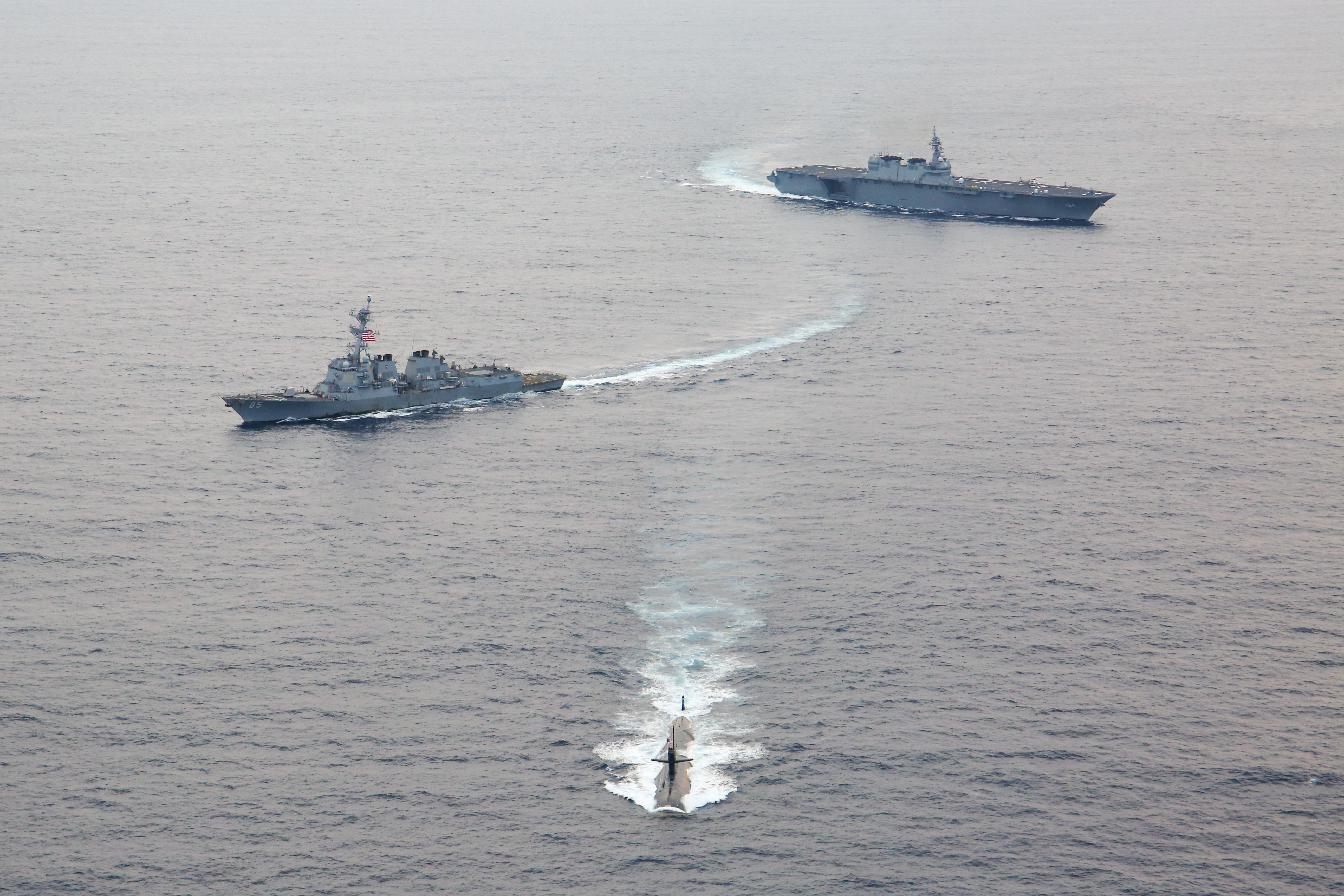 190930-N-AY639-1004 WATERS NEAR GUAM (Sept. 30, 2019) The Los Angeles-class fast attack submarine USS Oklahoma City (SSN 723), assigned to Commander, Submarine Squadron 15, steams ahead of U.S., Japan Maritime Self-Defense Force (JMSDF), and Indian ships during the Malabar 2019 Photo Exercise (PHOTOEX). An annual, multinational, naval field training exercise, Malabar is designed to improve the collective maritime relationship between the JMSDF, Indian and U.S. navies. (U.S. Navy photo courtesy of JMSDF Public Affairs/Released)